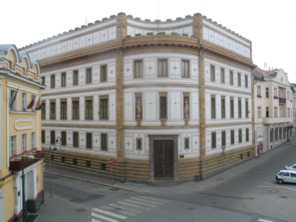 crossing of Kuzmanyho and Narodna streets